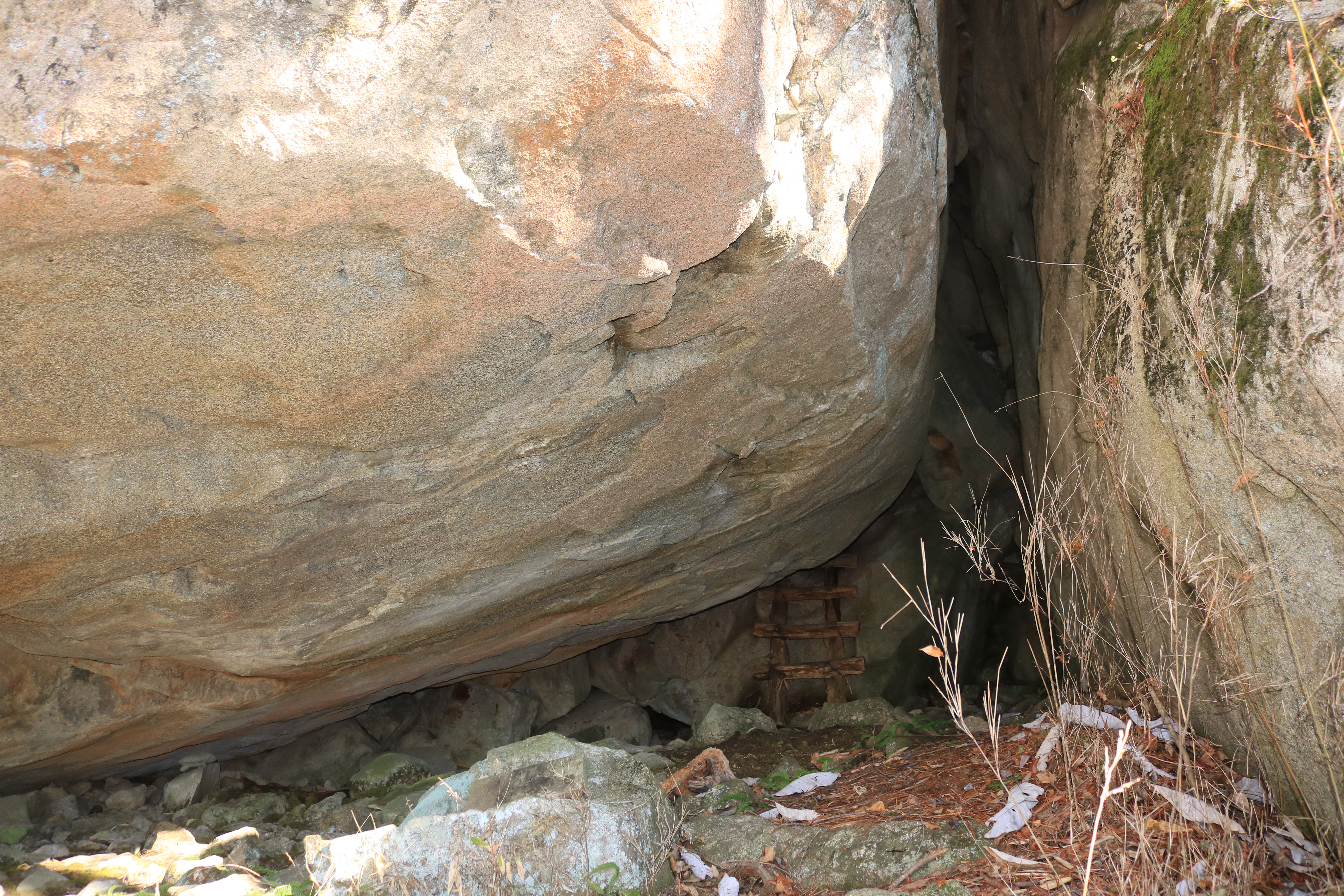 Komoriiwa on Mount Futatsumori in Shirakawa Town, Gifu Prefecture, Japan.